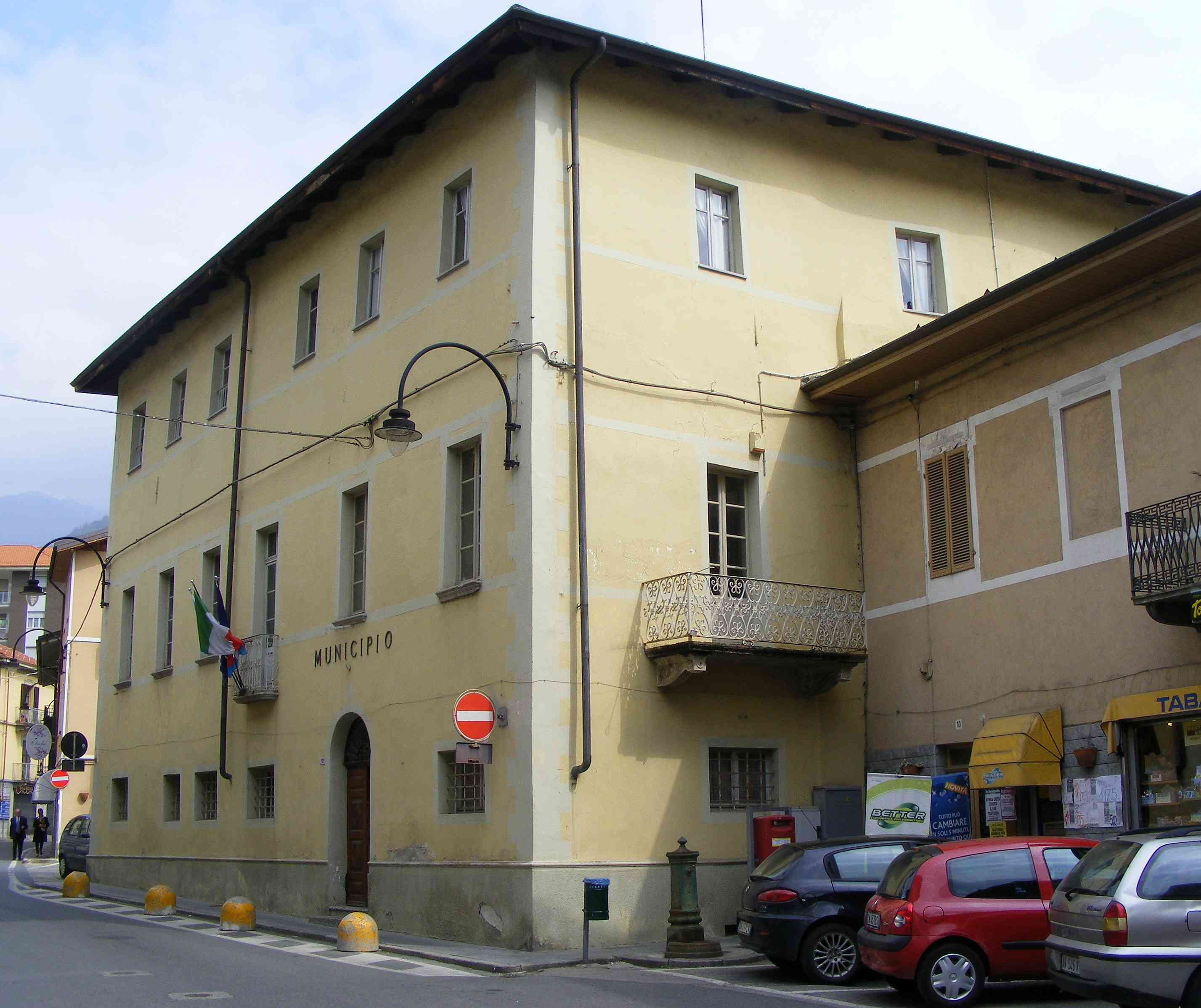 Pont Canavese (TO, Italy): town hall